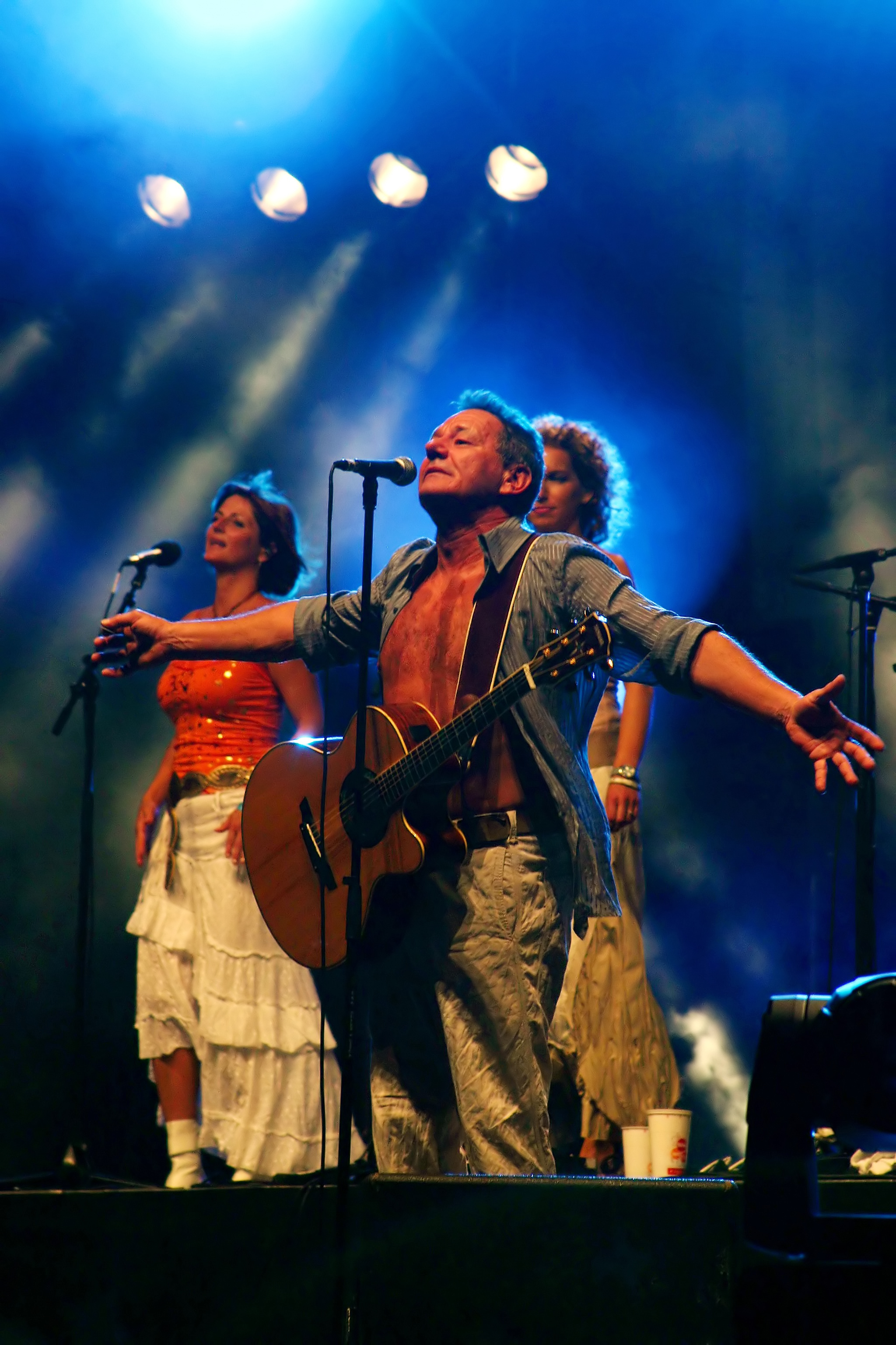 Wolfgang Ambros at the Donauinselfest 2006